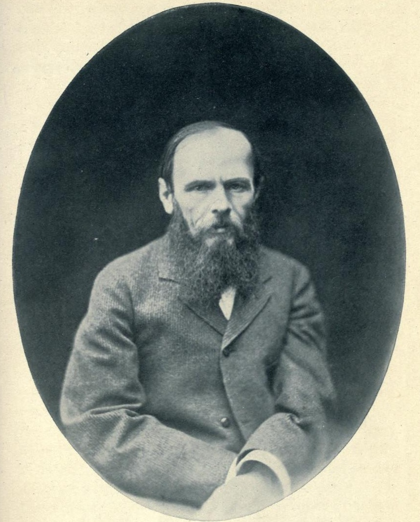 Dostoyevsky in 1880